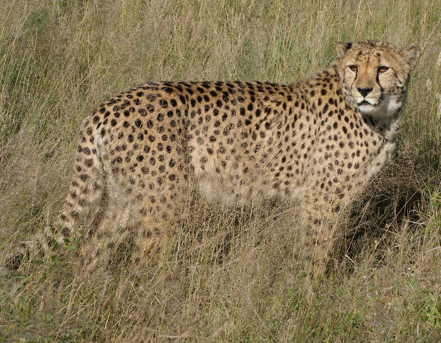 Uncurable (injured from a trap) cheetah from Africat Foundation, Namibia